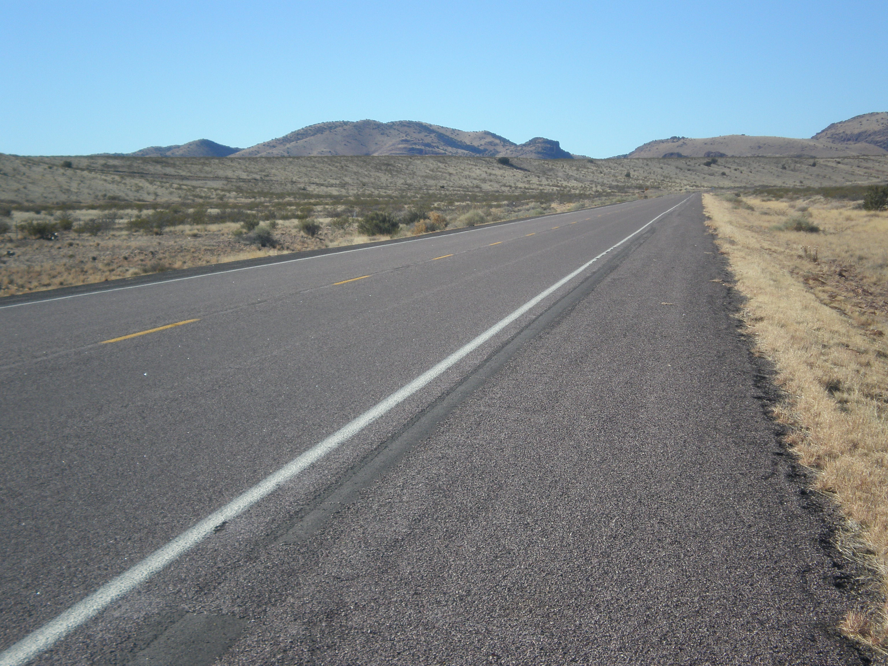 US Route 60, West of Socorro, NM 3-Jan-2010